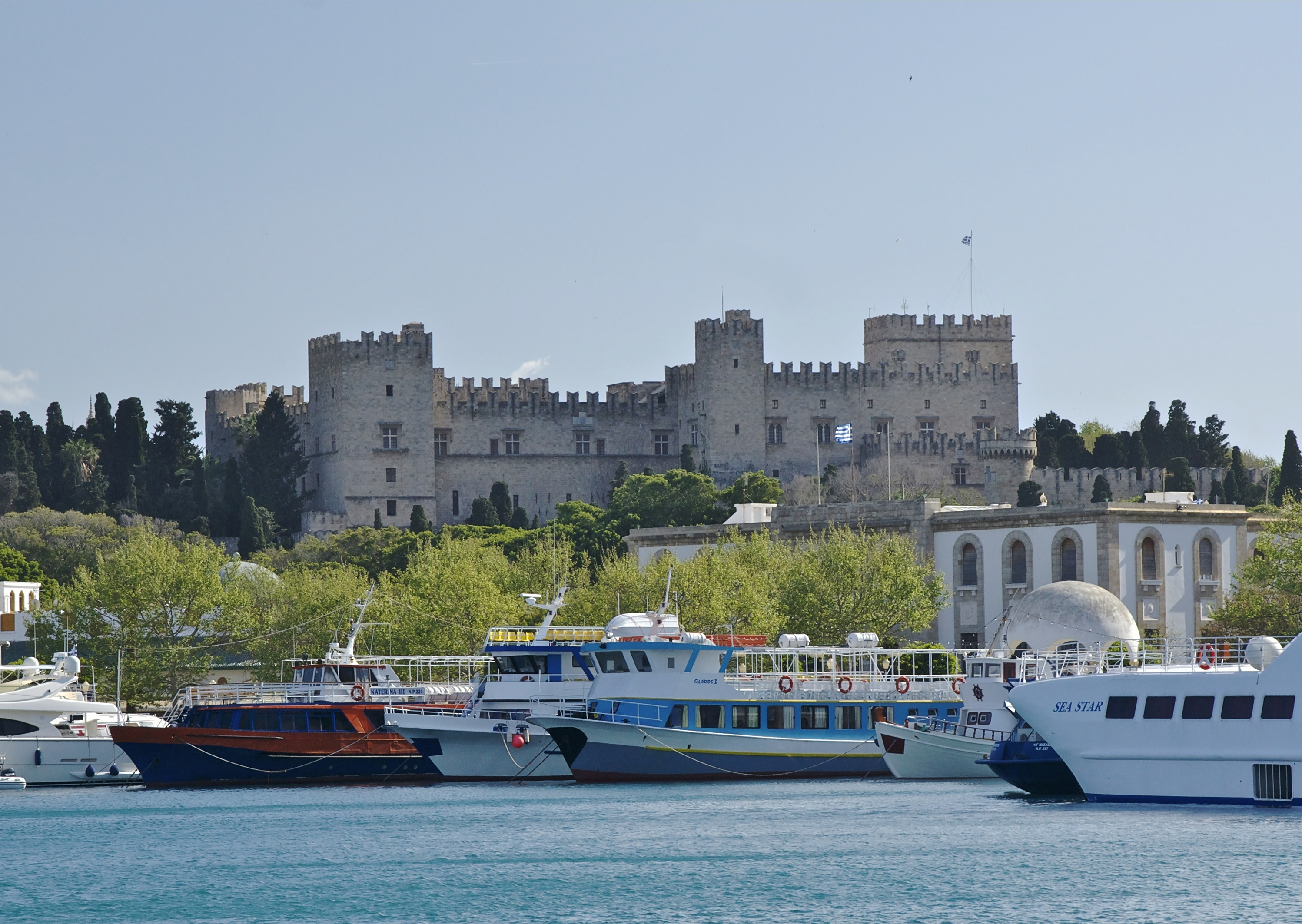 The palace of the Grand-Master of the Knights of Saint John of Jerusalem, old town of Rhodes, island of Rhodes, Greece.